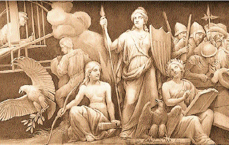 "America and History" - The first panel contains the only allegorical figures in the frieze. Columbia (personification of the United States of America), wearing a liberty cap, stands in the center with her spear and shield. To her right sits an Indian maiden with a bow and arrows, representing the untamed American continent. Also at America's feet is a female figure representing History, who holds a stone tablet to record events as they occur. An American eagle perches on a fasces (a bundle of rods symbolizing the authority of government). The man in the background to their right is in the same pose as the prospector at the end of "Discovery of Gold in California," since Brumidi planned to have this scene connect with his last one.